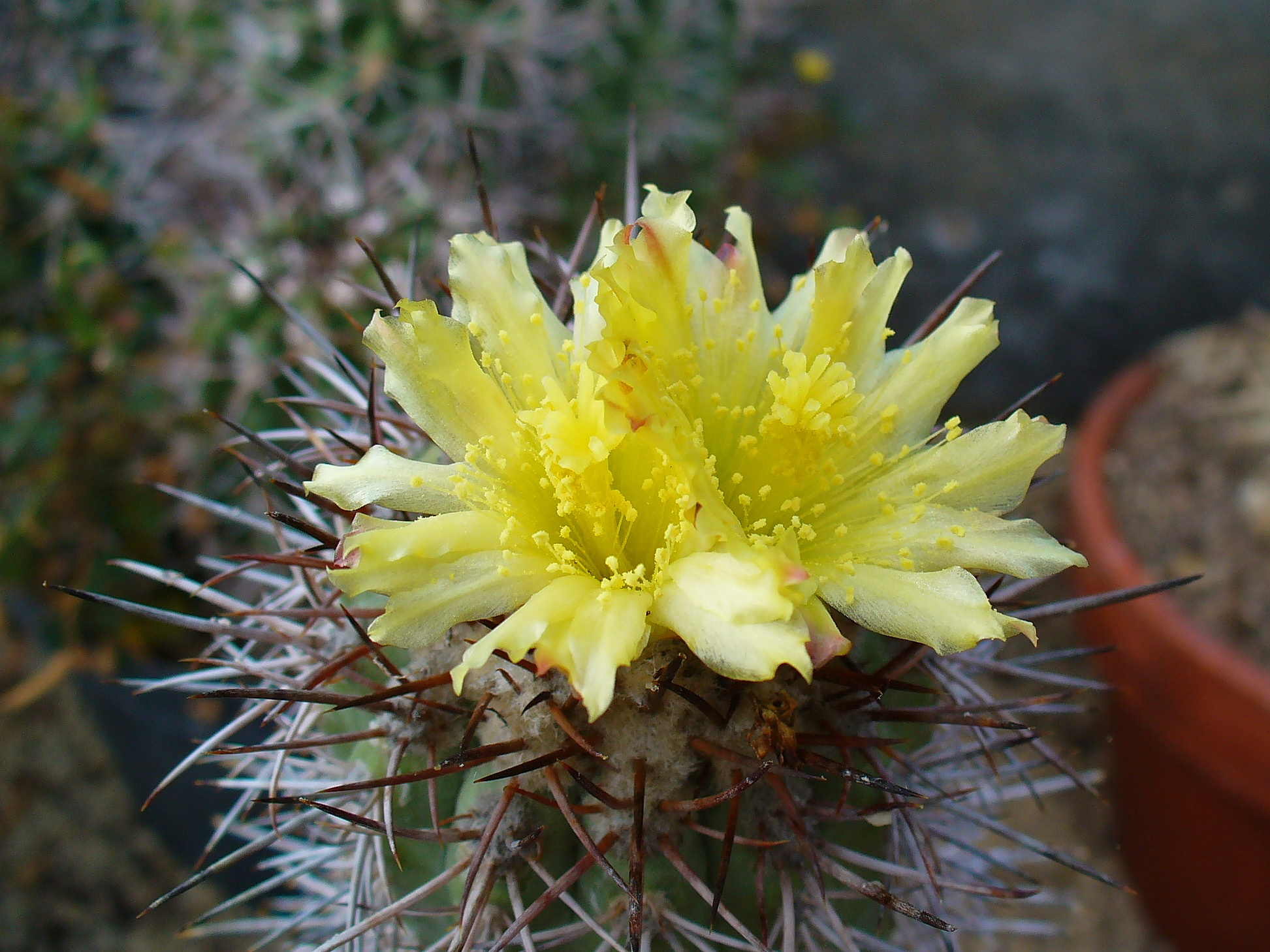 Copiapoa calderana, Cactaceae, flowers; Botanical Garden KIT, Karlsruhe, Germany.